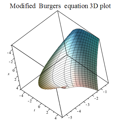 Modified Burgers equation 3D plot